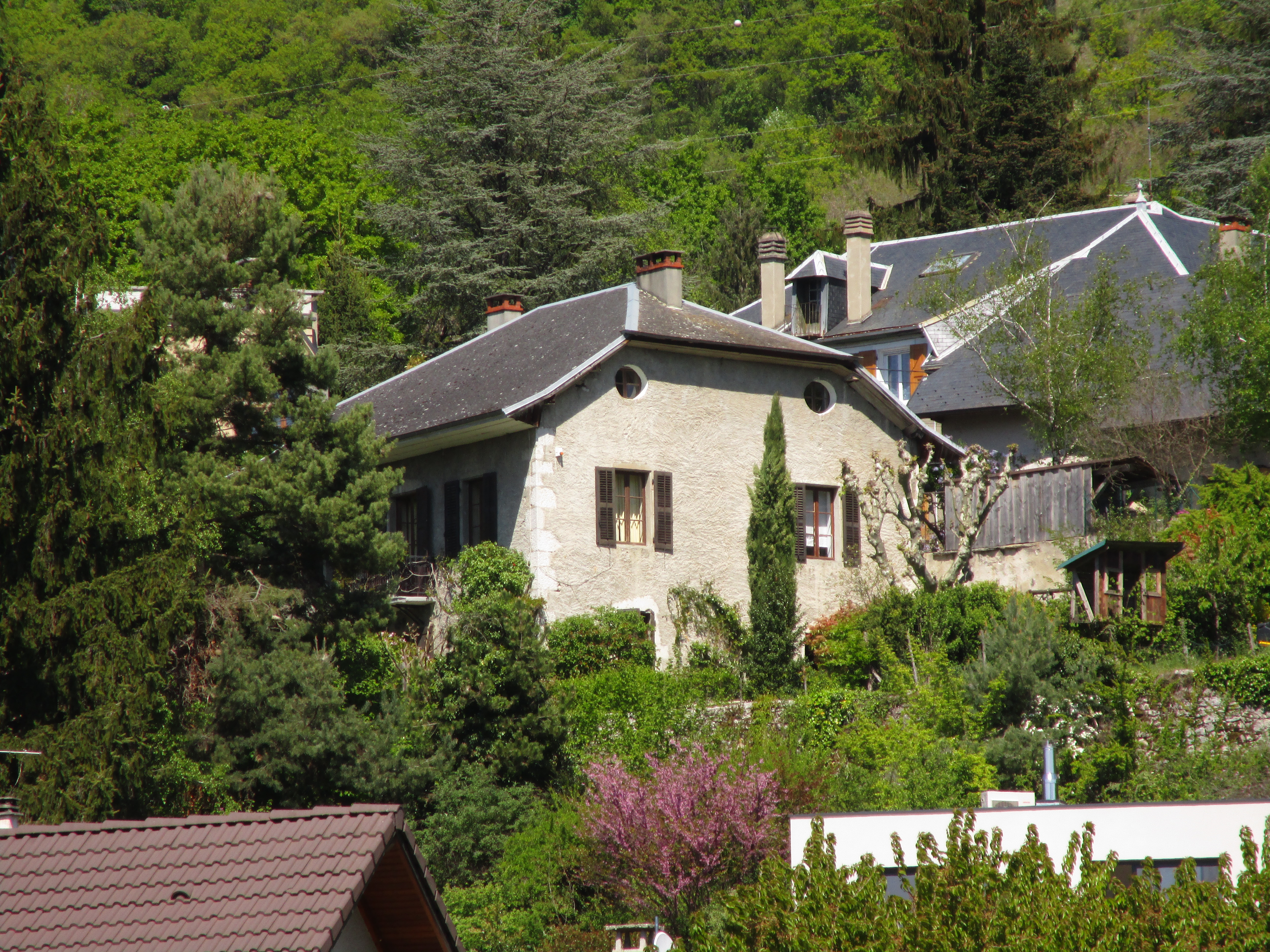 The former house of Amélie Gex in Challes-les-Eaux on April 29, 2016.